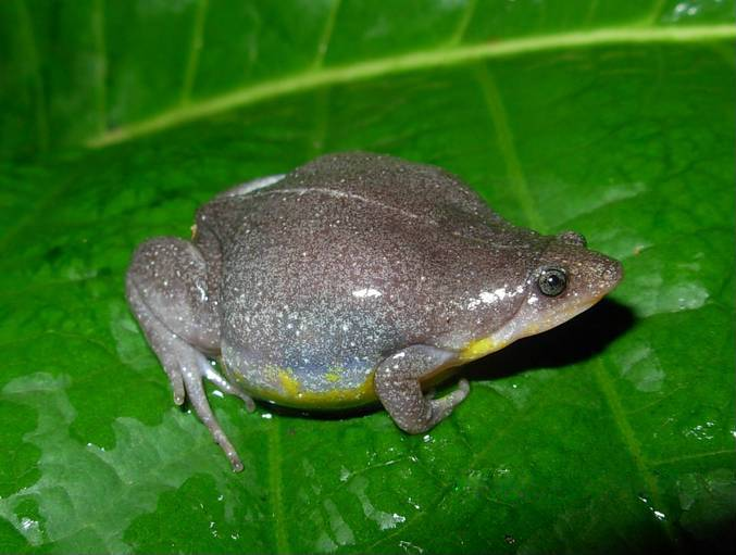 Elachistocleis ovalis